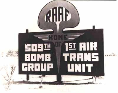 Roswell AAF sign, about 1946